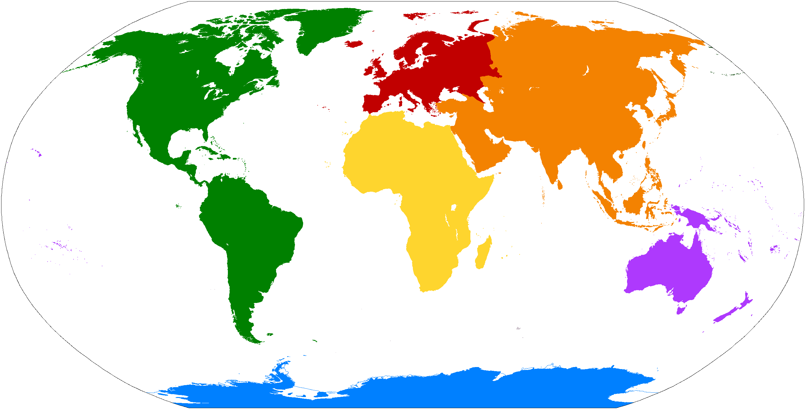 World map depicting continebts (6); map adapted from PDF world map at CIA World Fact Book